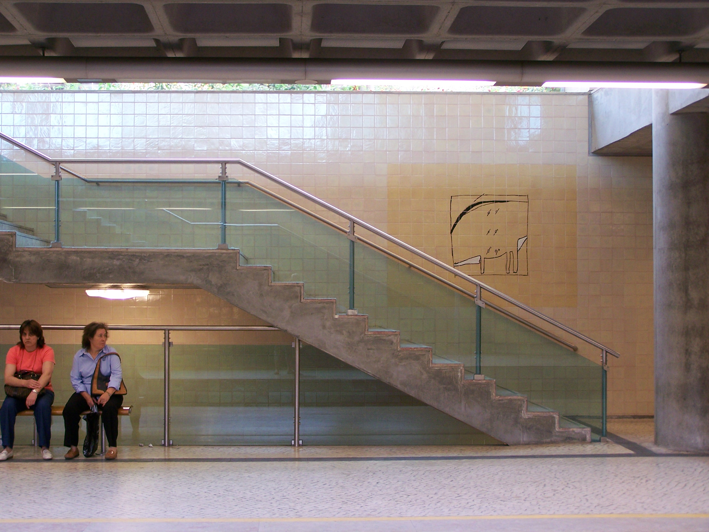 Lisbon's metro station Odivelas (Yellow Line), Odivelas, Greater Lisbon, Portugal